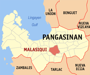 Map of Pangasinan showing the location of Malasiqui